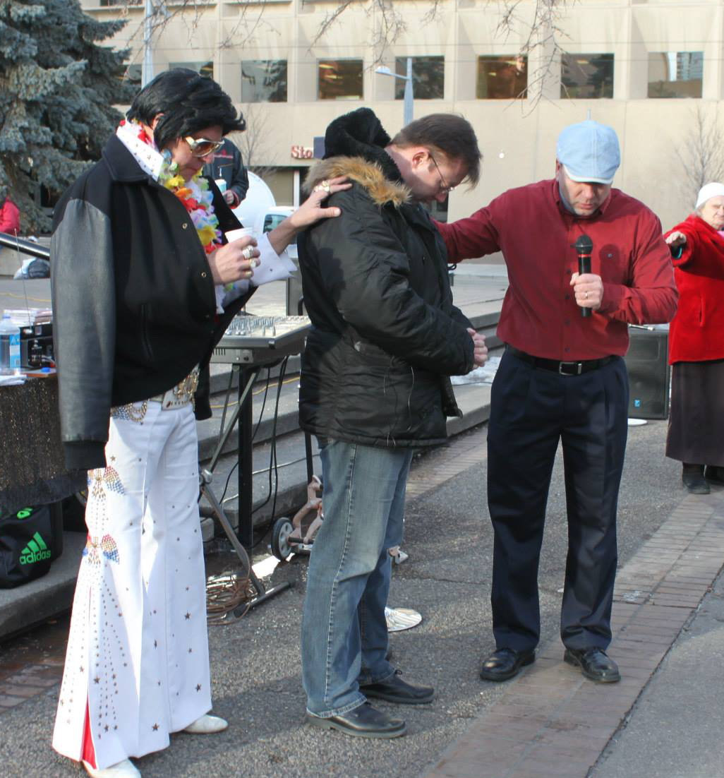 Artur Pawlowski 2014 on the Streets ministering across from Calgary's City Hall